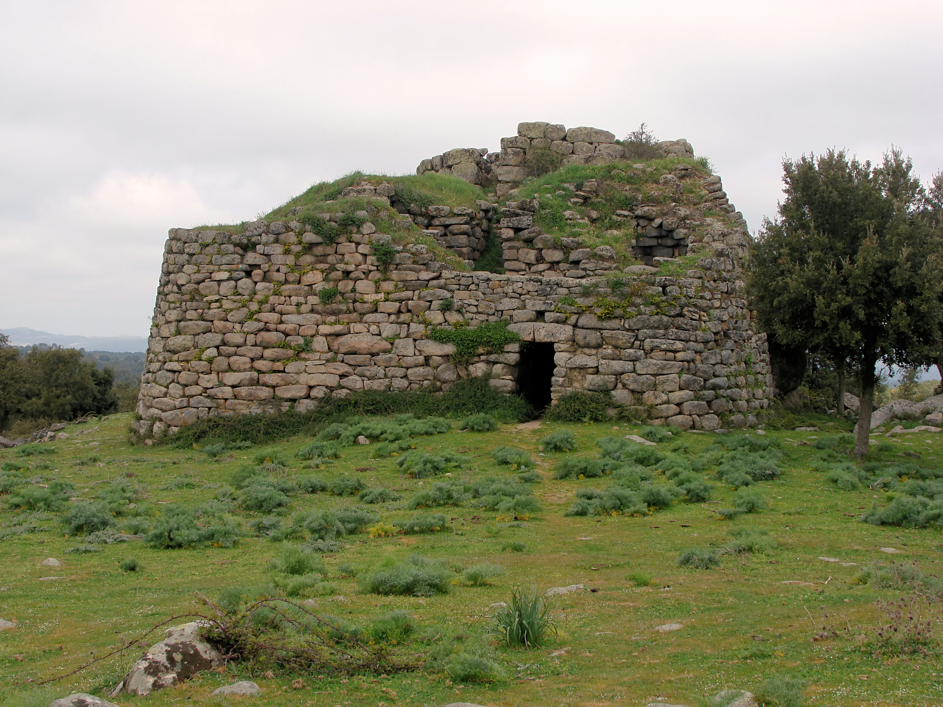 Nuraghe Loelle (1200–900 BC) along the SS389 near Buddusō, Sardinia, Italy